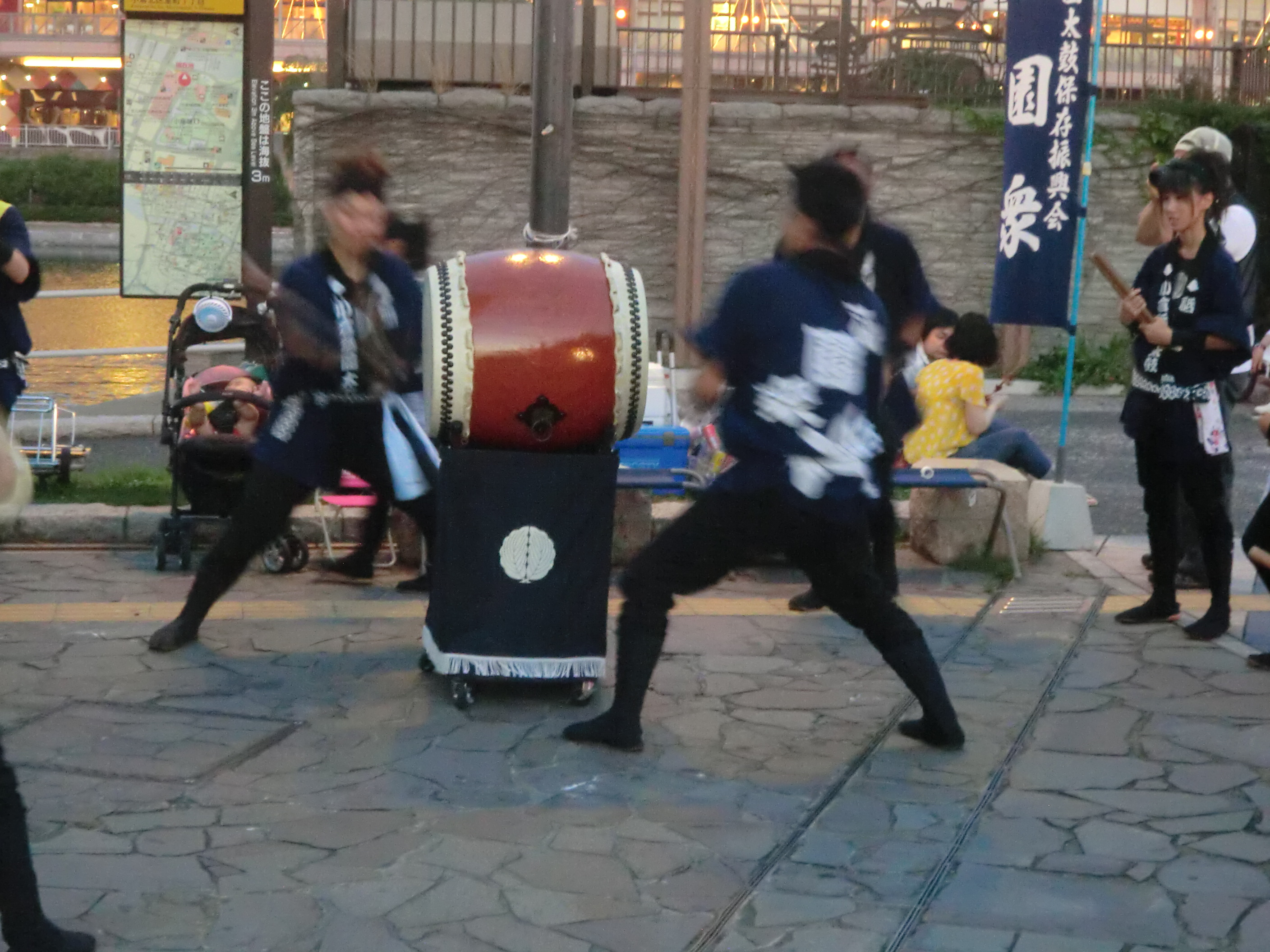 Suedaiko style drumming of Kokura Gion Daiko festival.Photographed at Kitakyushu,Fukuoka.Japan.